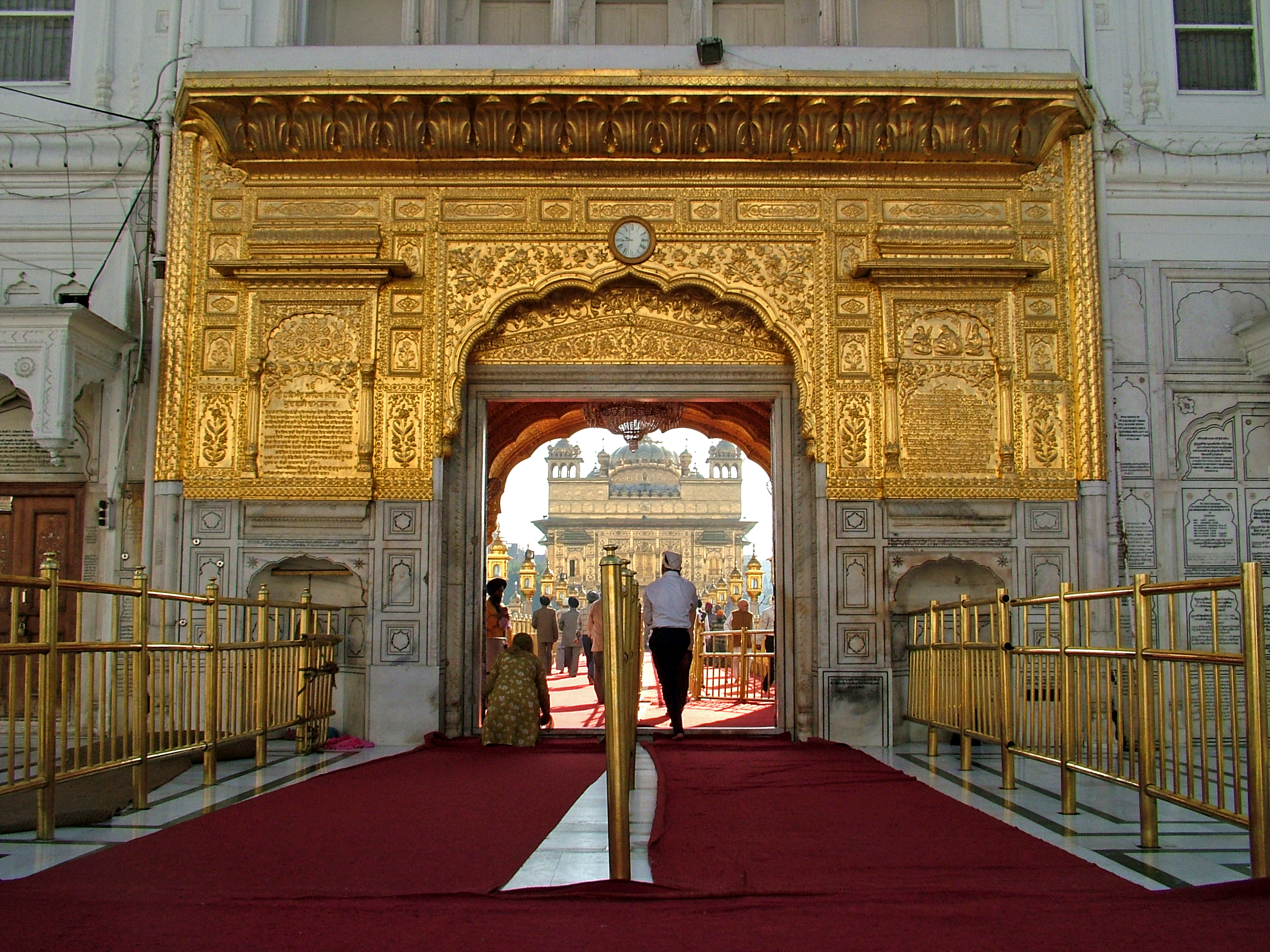 Entrance to Golden Temple, Amritsar